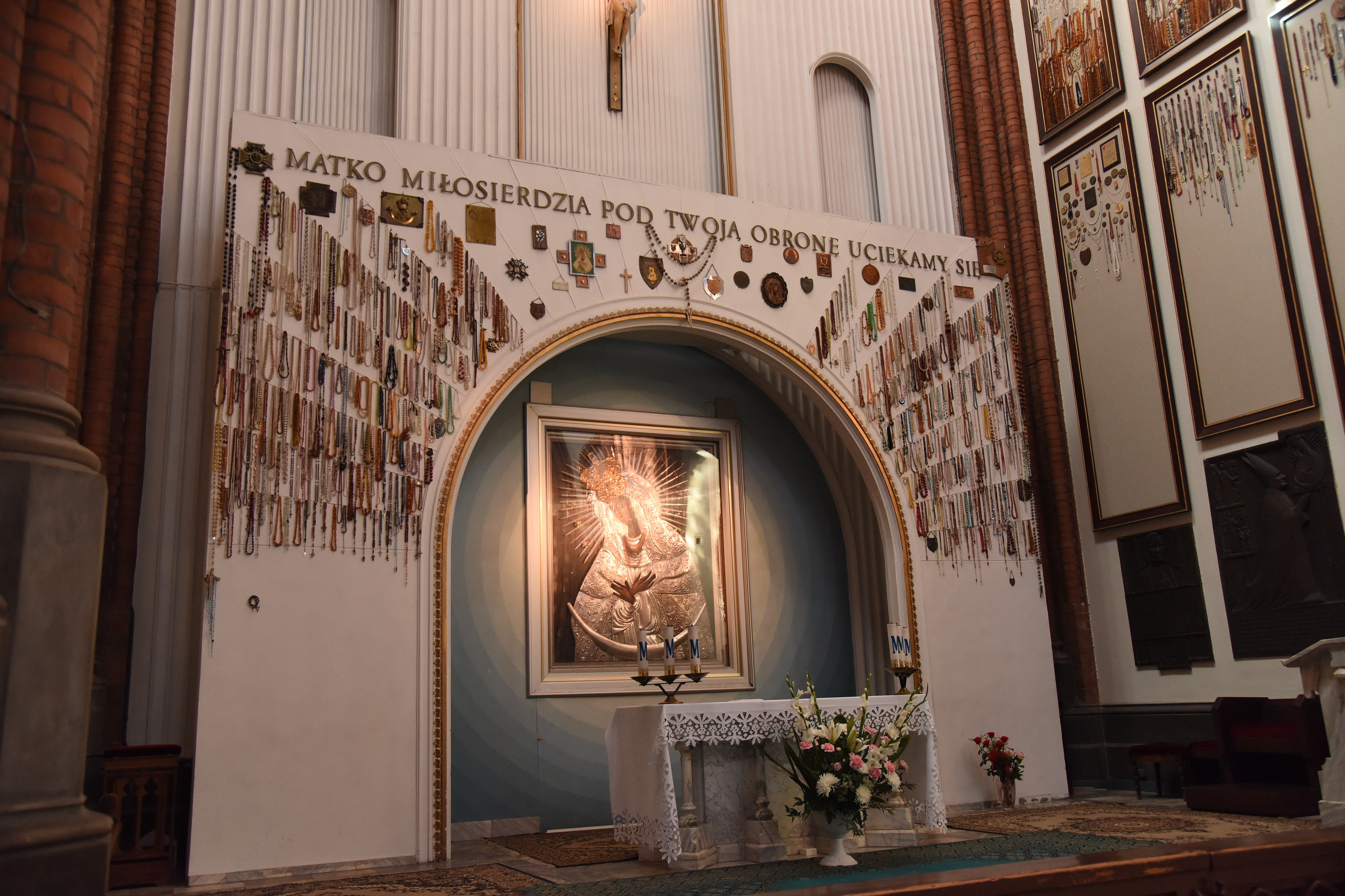 Interior of the Archcathedral Basilica in Białystok